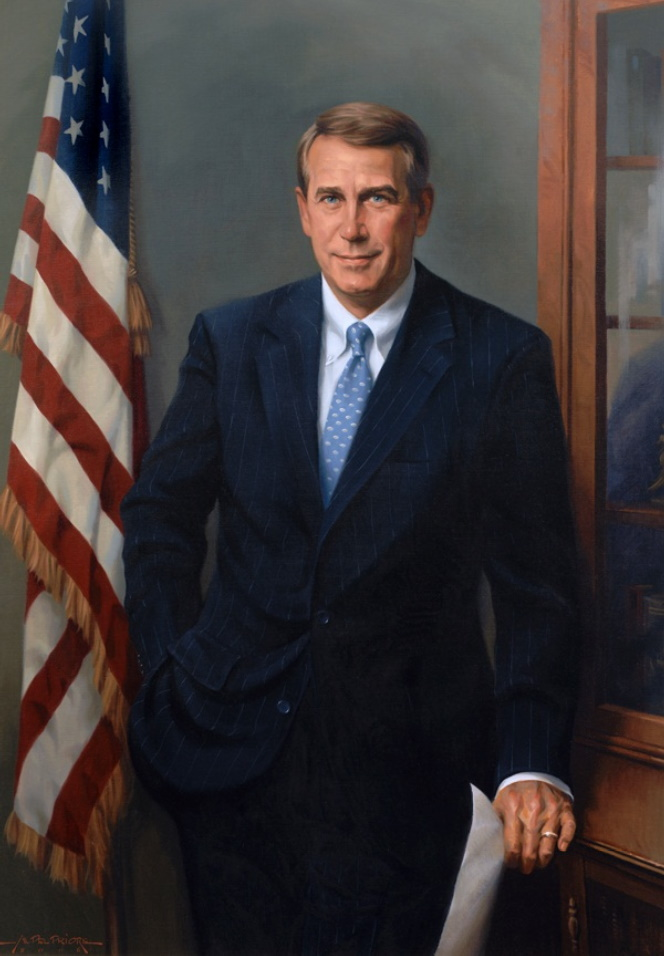 This is a portrait of John Boehner painted in 2006.